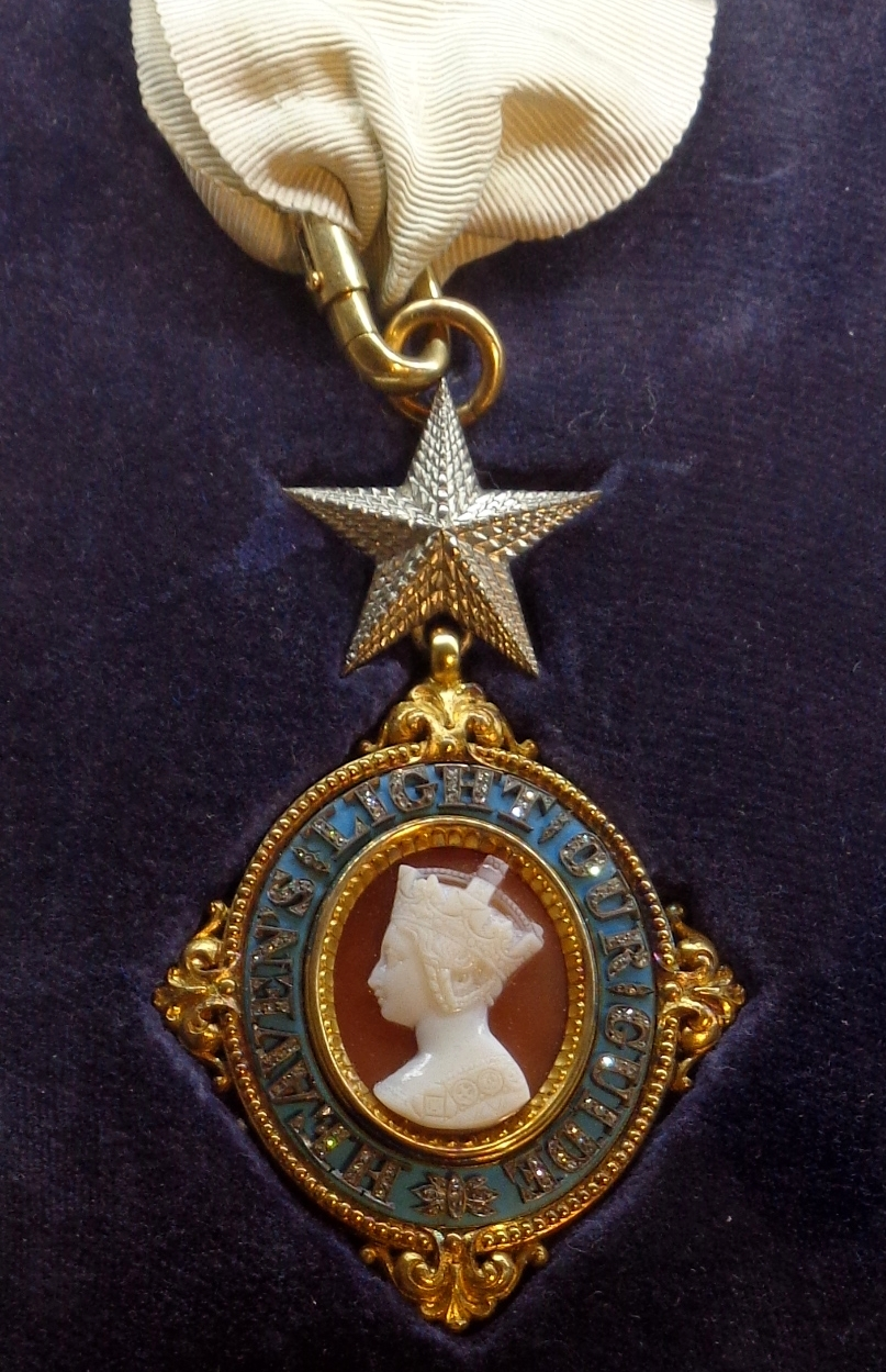 Order of the Star of India, badge of Knight Commander, c.1900. United Kingdom. The exhibition of the Tallinn Museum of Orders of Knighthood, Estonia.